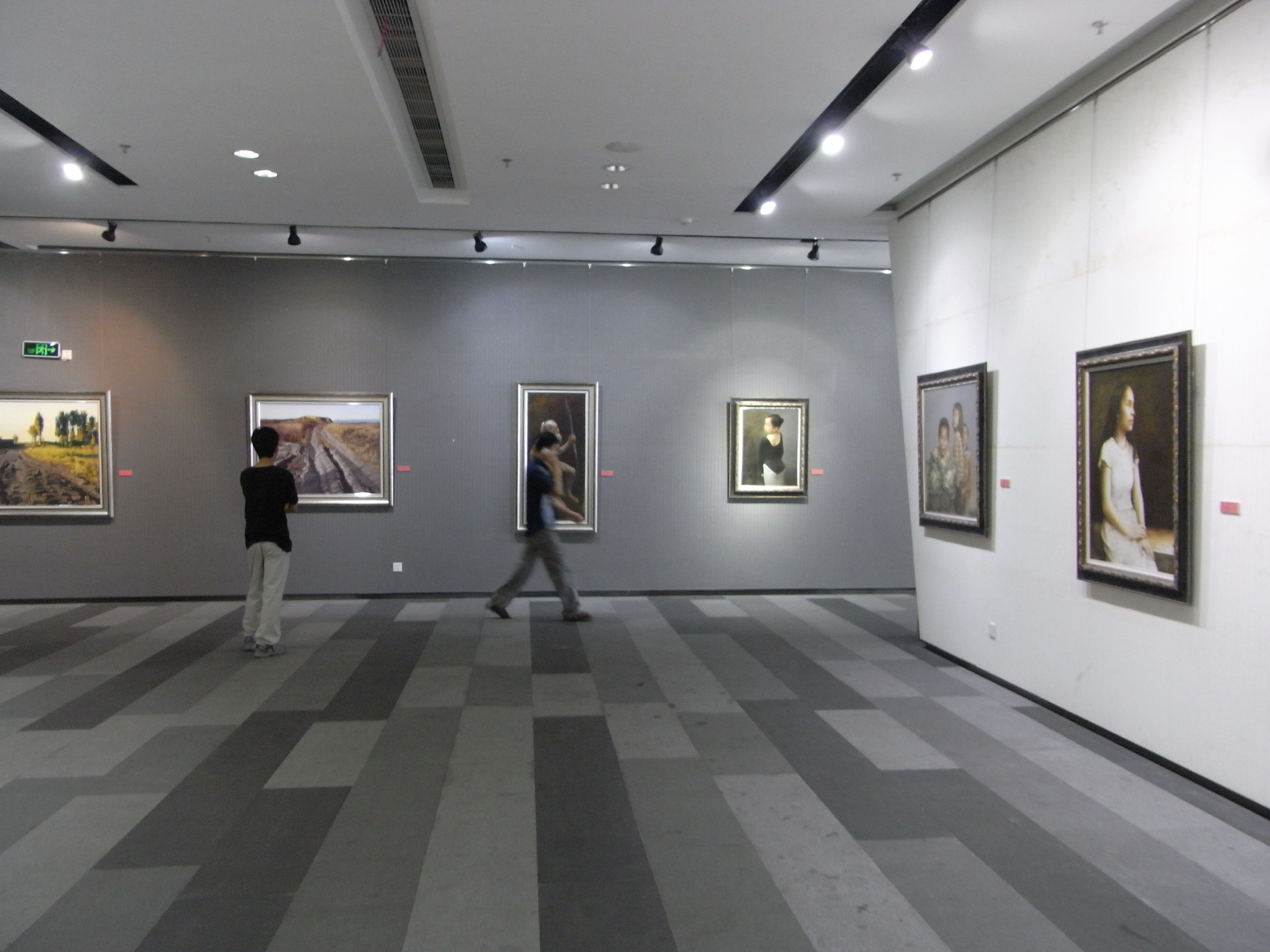 深圳龍崗區布吉街道大芬村美術館